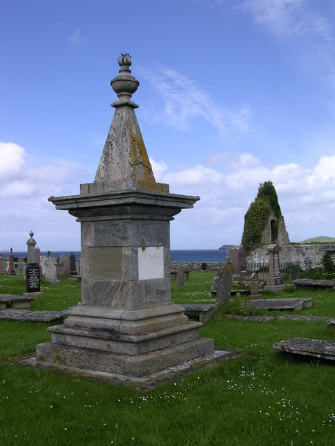 Rob Donn Mackay monument, Balnakeil graveyard Monument to Gaelic poet (1714 - 1778) with inscriptions in Gaelic, English, Greek and Latin. Erected 1827. for more information.